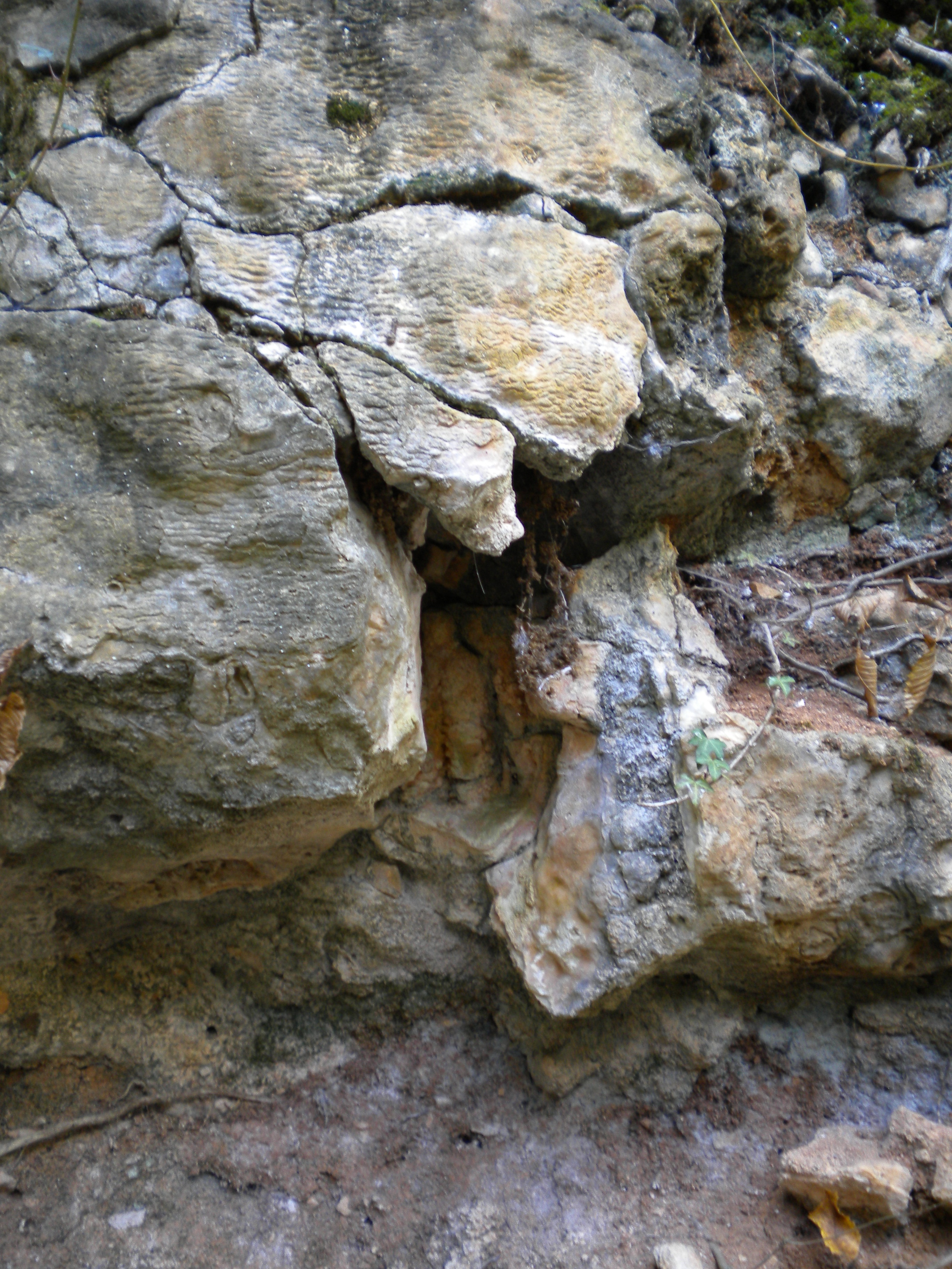 Sinter deposits on Upper Bajocian oolite at the new entry to the Villars Cave, Villars, Dordogne, France.